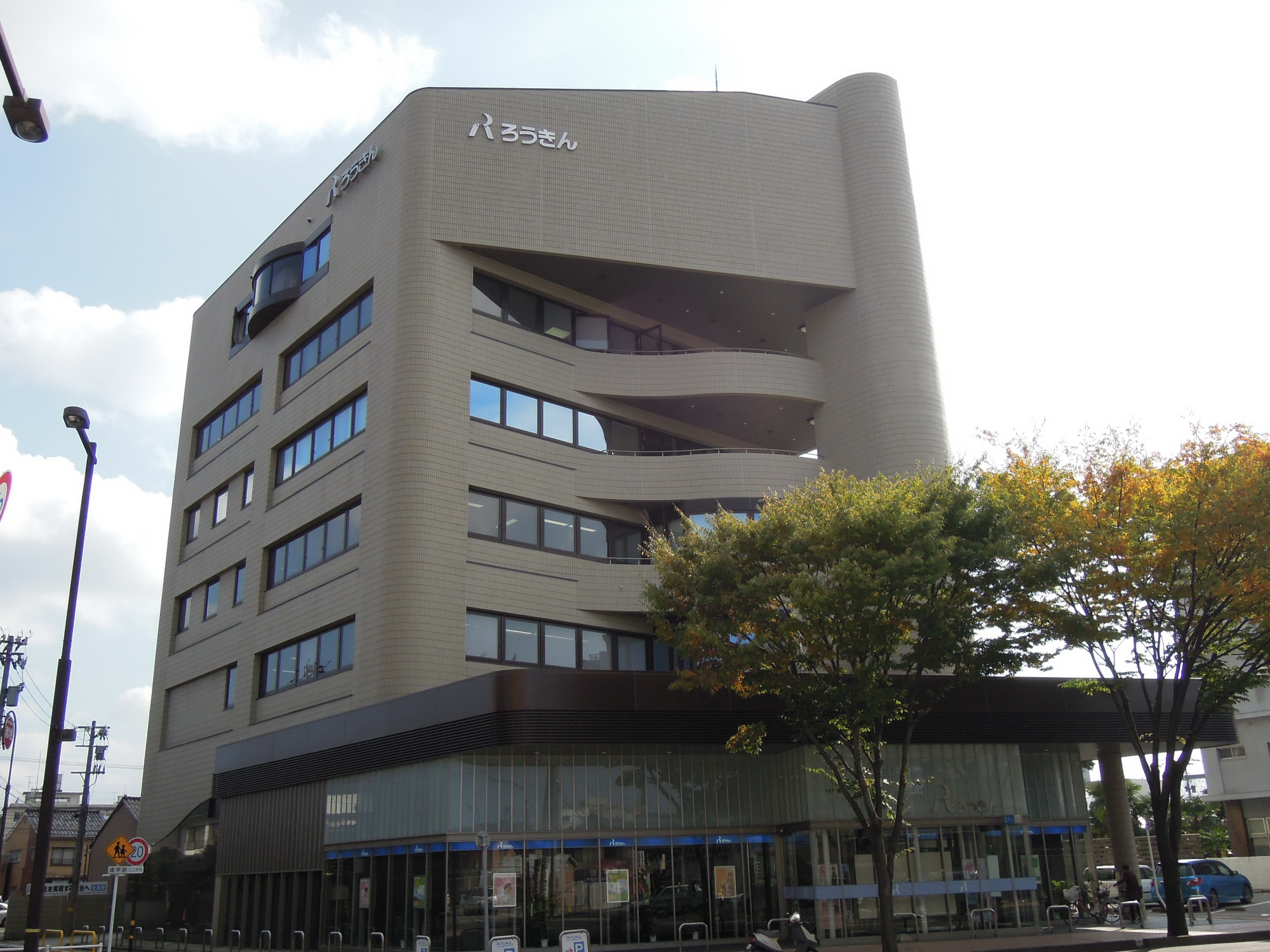 Hokuriku Labour Bank (Kanazawa Ishikawa)